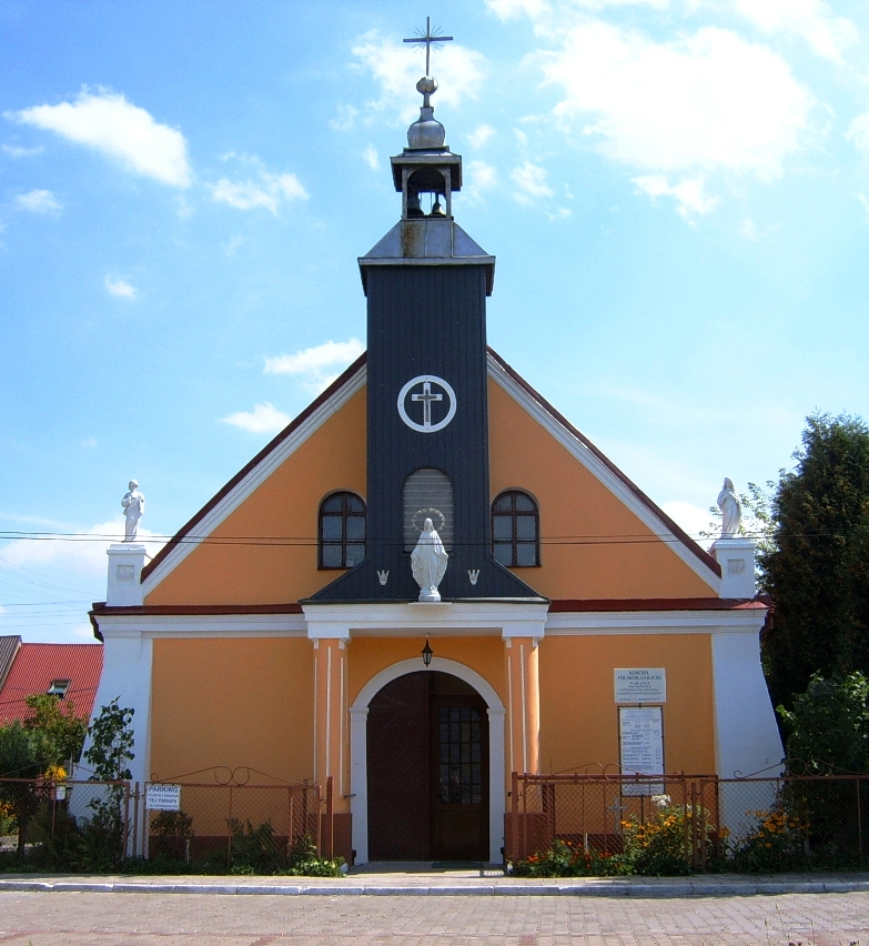 Polish Catholic church in Zamość